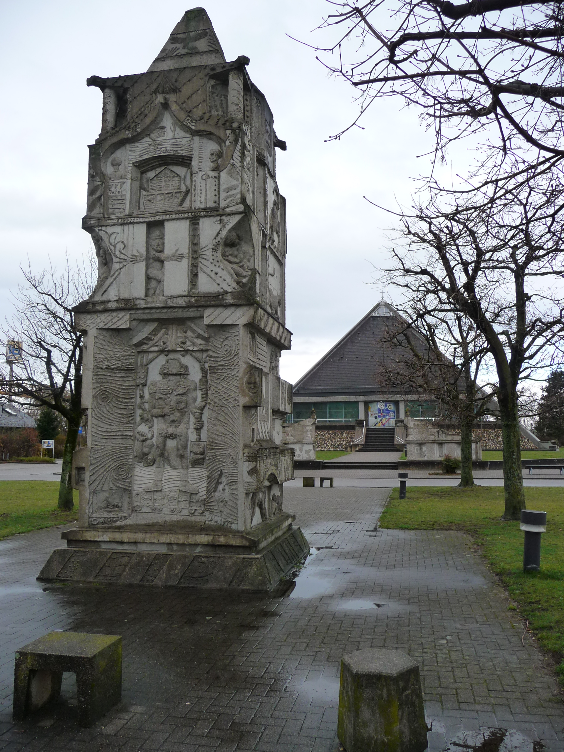 Expressway-Church Baden-Baden (St. Christophorus)